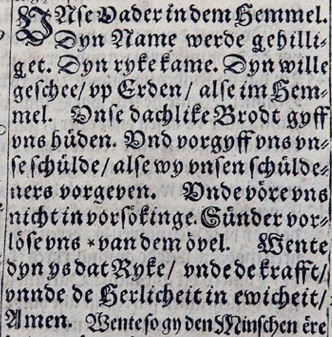 A photo of Lord's Prayer on a page in Book of Matthew in 1614 Low German Bible from Boerne Public Library.